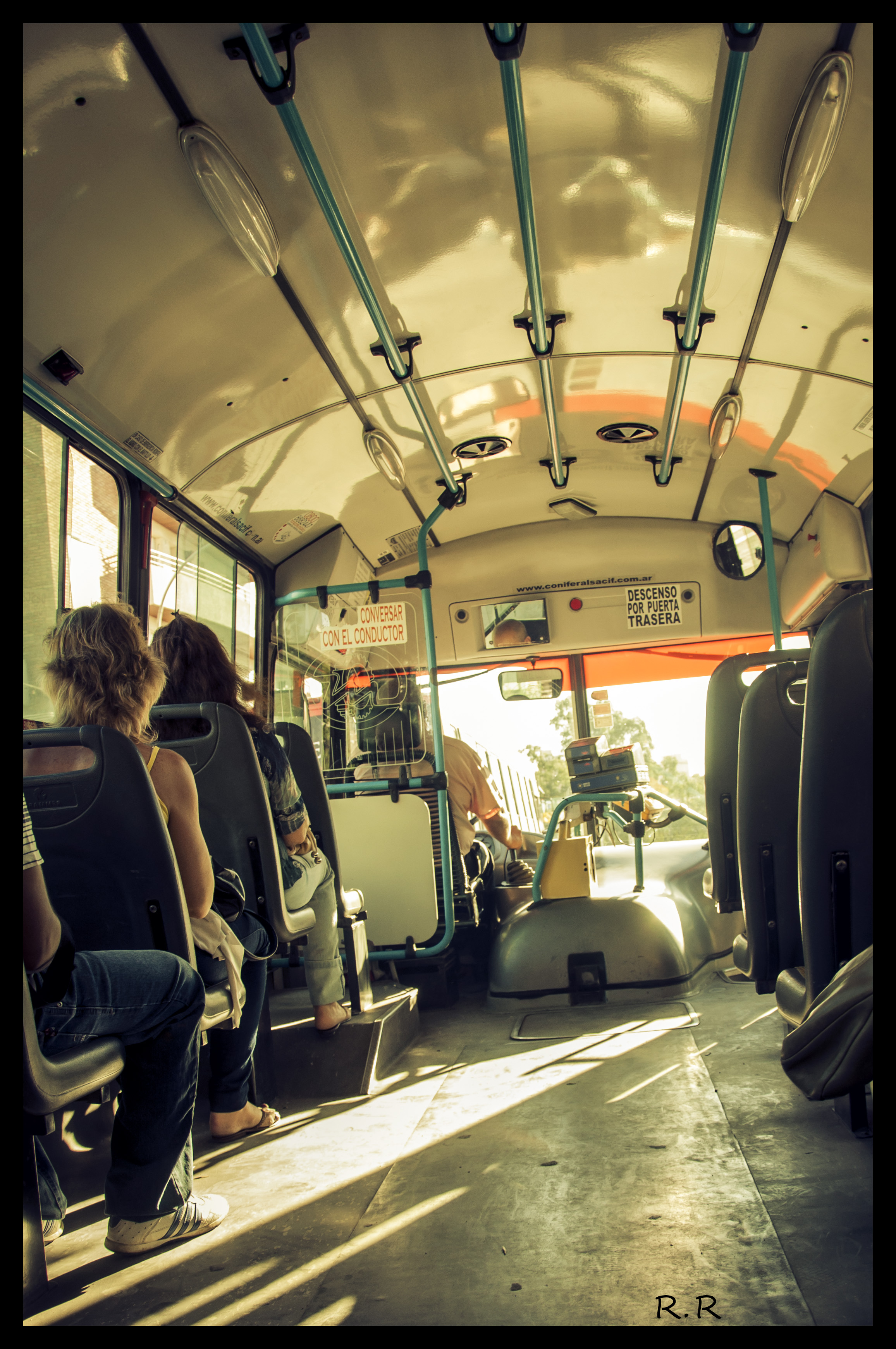 Inside a bus of Coniferal company. Cordoba city, Argentina.